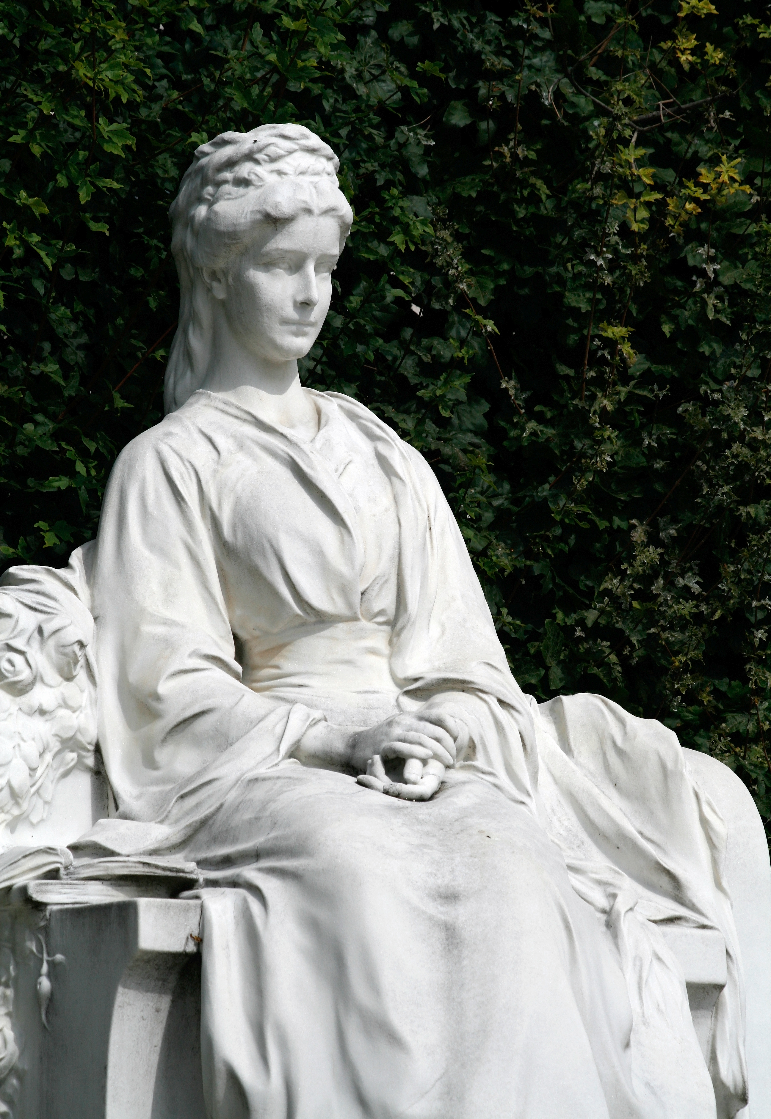 Memorial for Empress Elisabeth of Austria at the Volksgarten in Vienna.